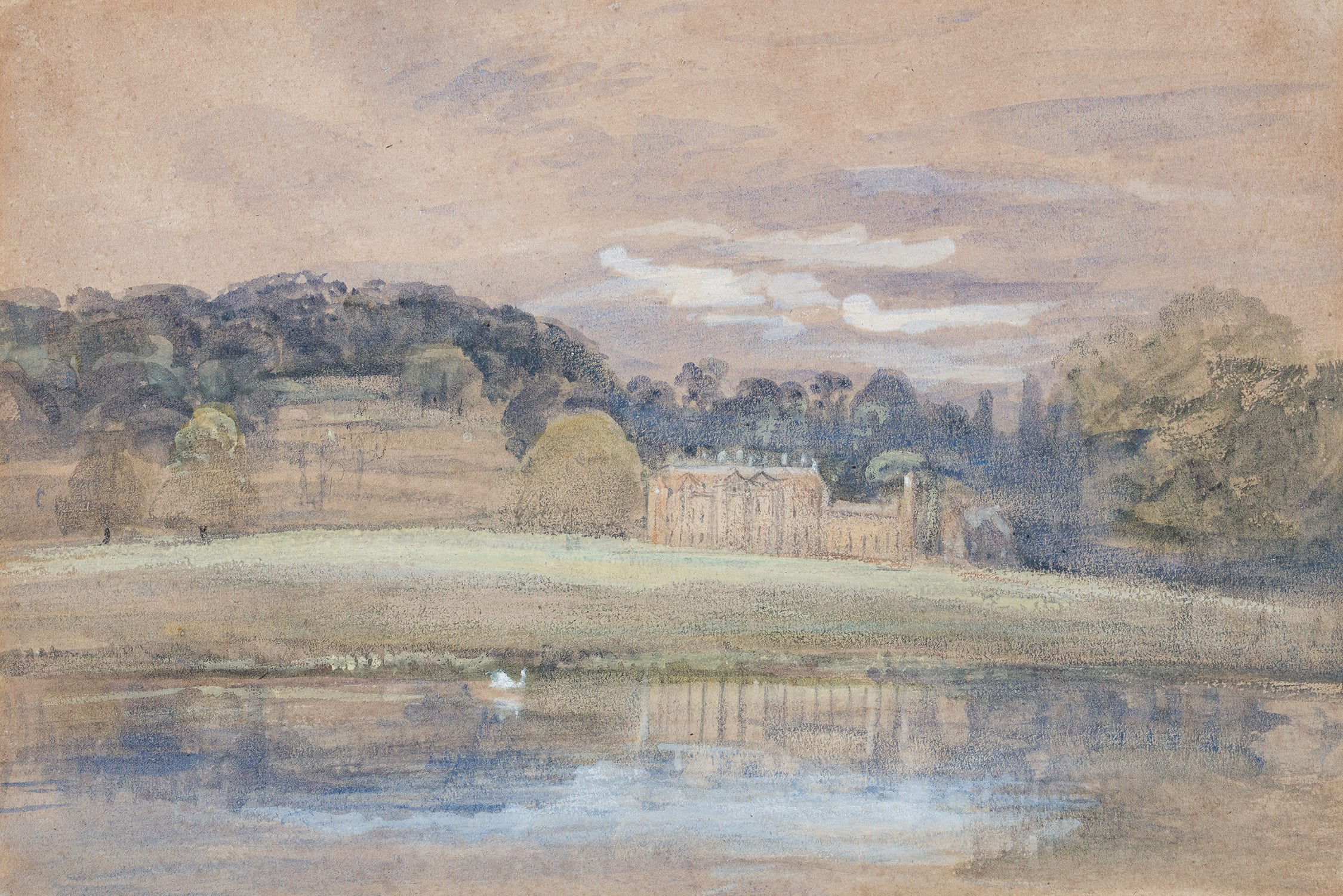 Offered for sale by Abbott and Holder in February 2020 when it was described as "‘Northwich [sic] House’, Northwick Park, Gloucestershire. Watercolour and gouache on tan paper. Inscribed verso. Provenance: Sothebys, 15.1.1976."